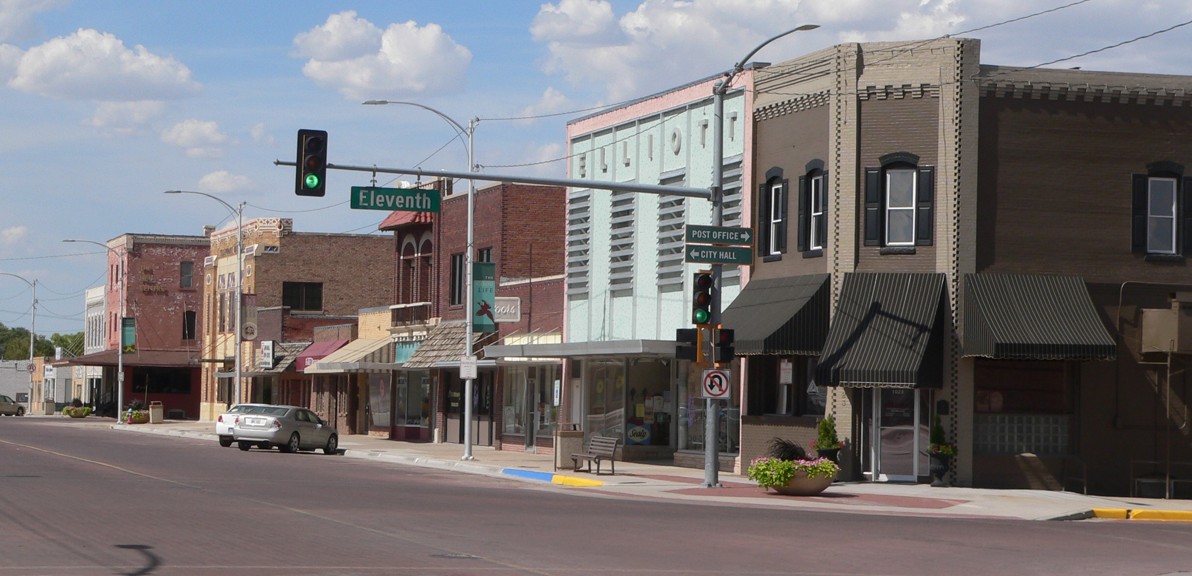 Downtown Goodland, Kansas: east side of Main, looking northeast from about 11th.